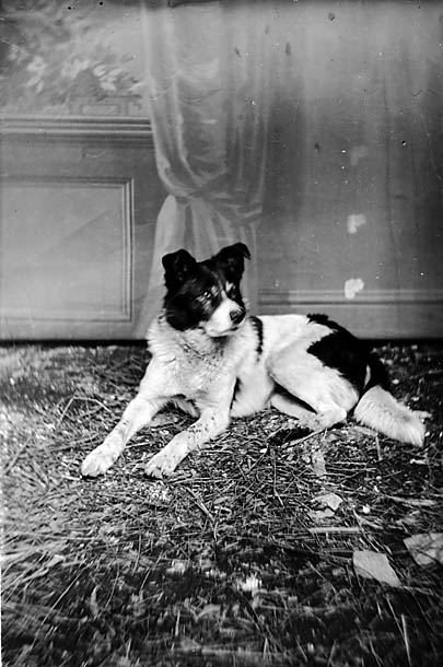 1 negative : glass, wet collodion, b&w ; 11 x 16.5 cm.